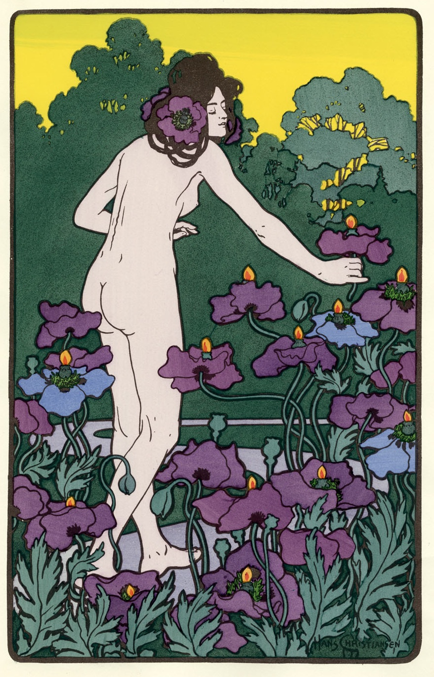 L'Heure du berger by Hans Christiansen, lithographic print for L'Estampe moderne, vol. 1897, Paris, F. Champenois.